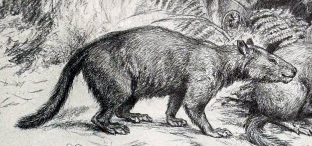 Crop of file in filename